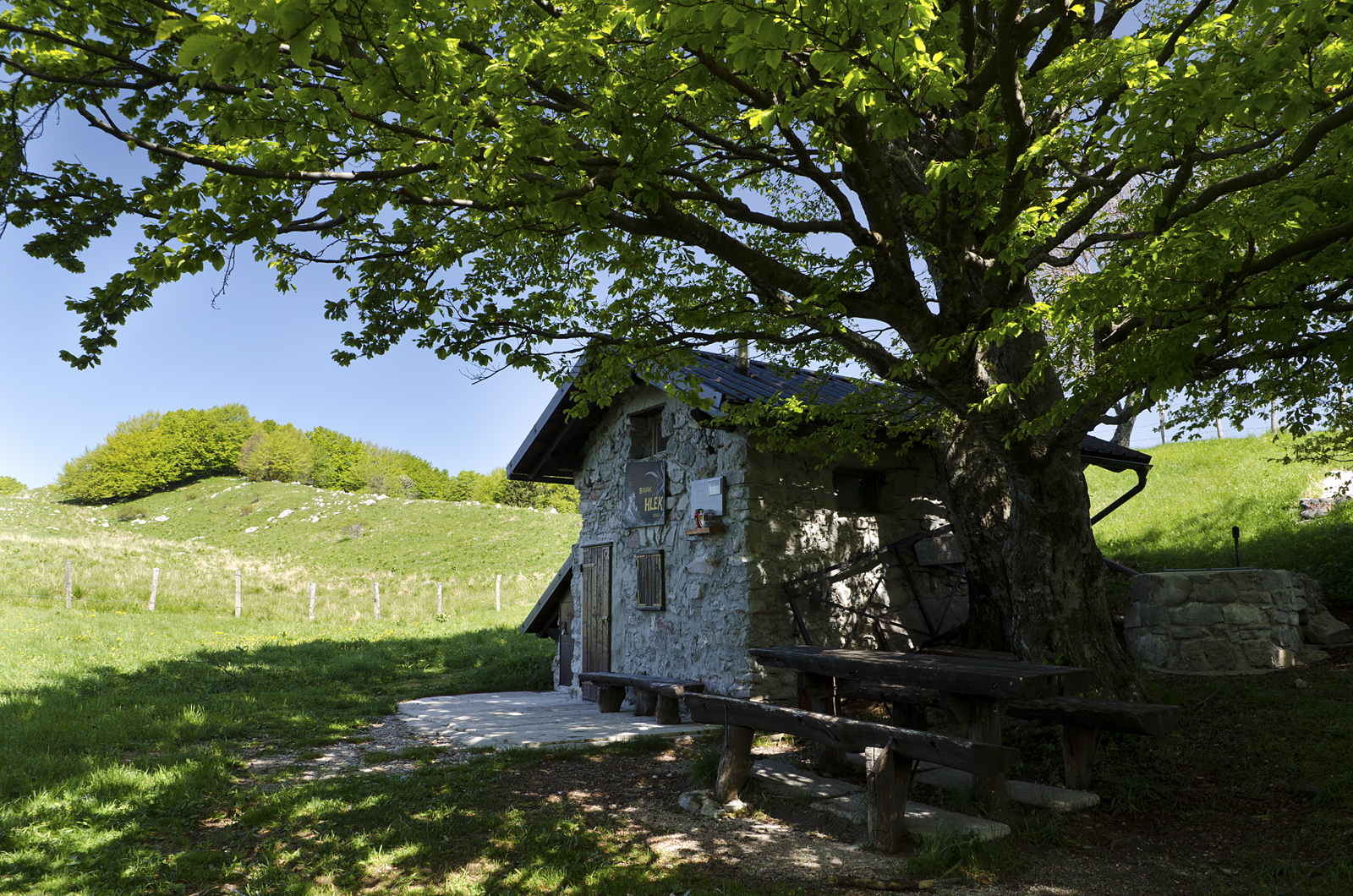 Bivouac Hlek